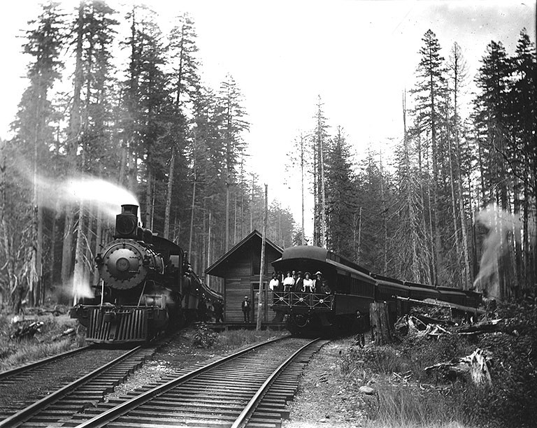 On sleeve of negative: Two trains and locomotives at Parkland, Wa. Subjects (LCTGM): Railroad locomotives--Washington (State)--Parkland; Railroad cabooses--Washington (State)--Parkland; Railroad tracks--Washington (State)--Parkland; Passengers--Washington (State)--Parkland Subjects (LCSH): Tacoma Eastern Railroad